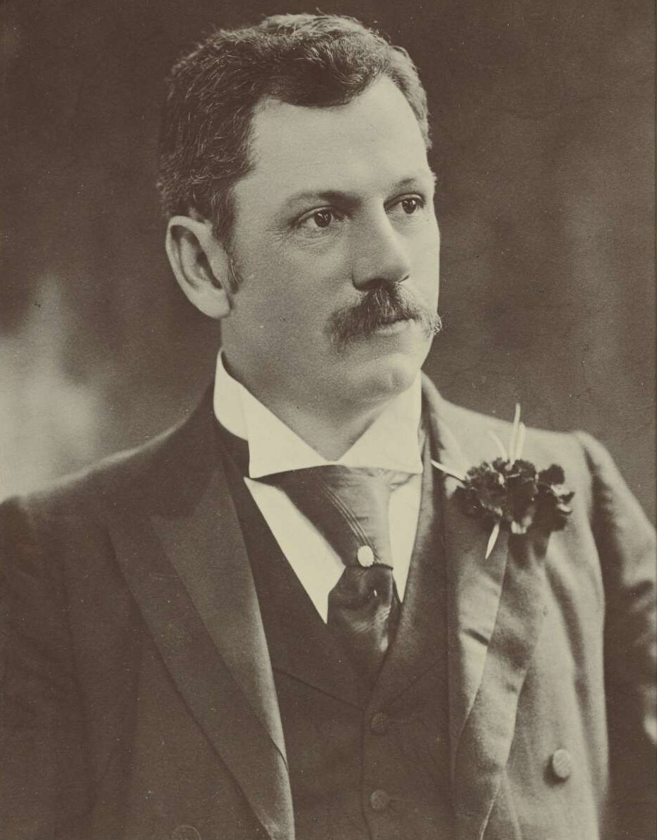 Joseph Carruthers From the 1898 Australasian Federal Convention Album.